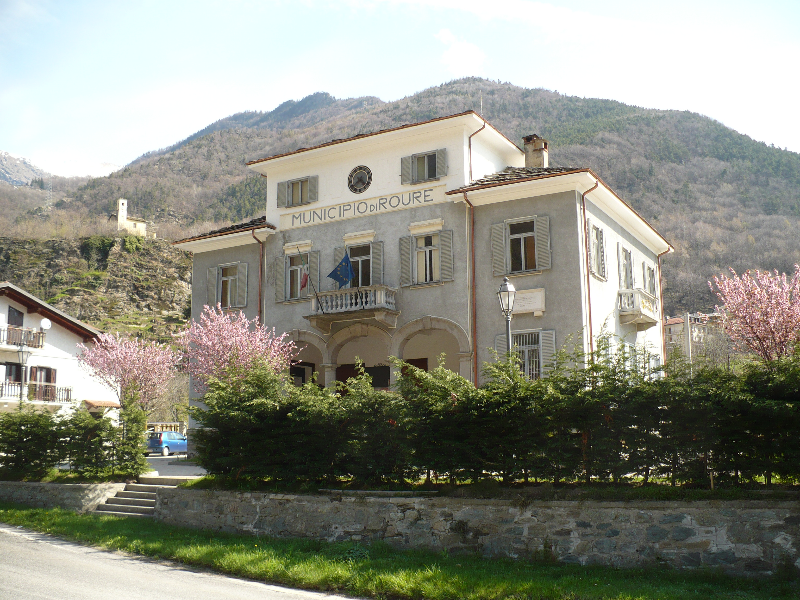 Municipio of Roure - Province of Turin - Piedmont - Italy